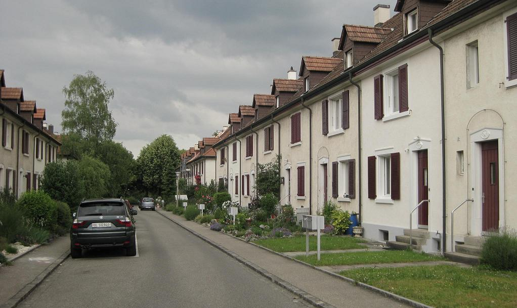 Wasserhaus Wohnsiedlung (1920-1921) in Münchenstein BL Switzerland